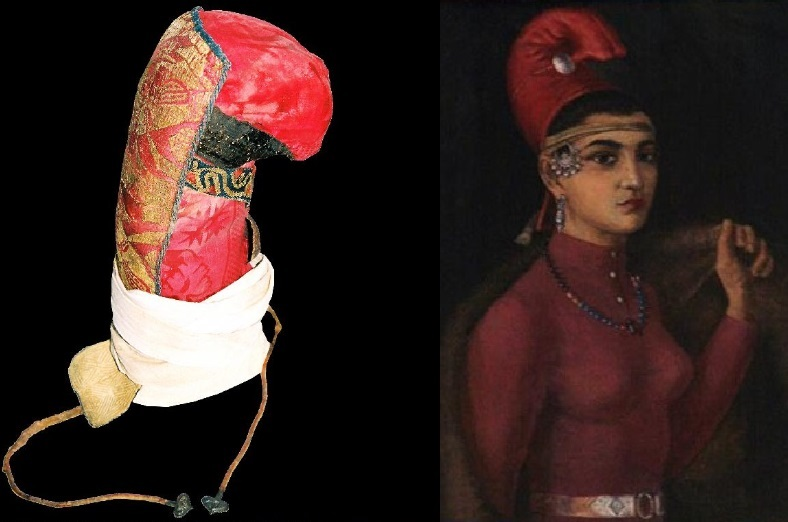 Koorkhars traditional Ingush female head cover (600 BC - 1800's AD). Koorkhars traditional Ingush female head cover (600 BC - 1800's AD).